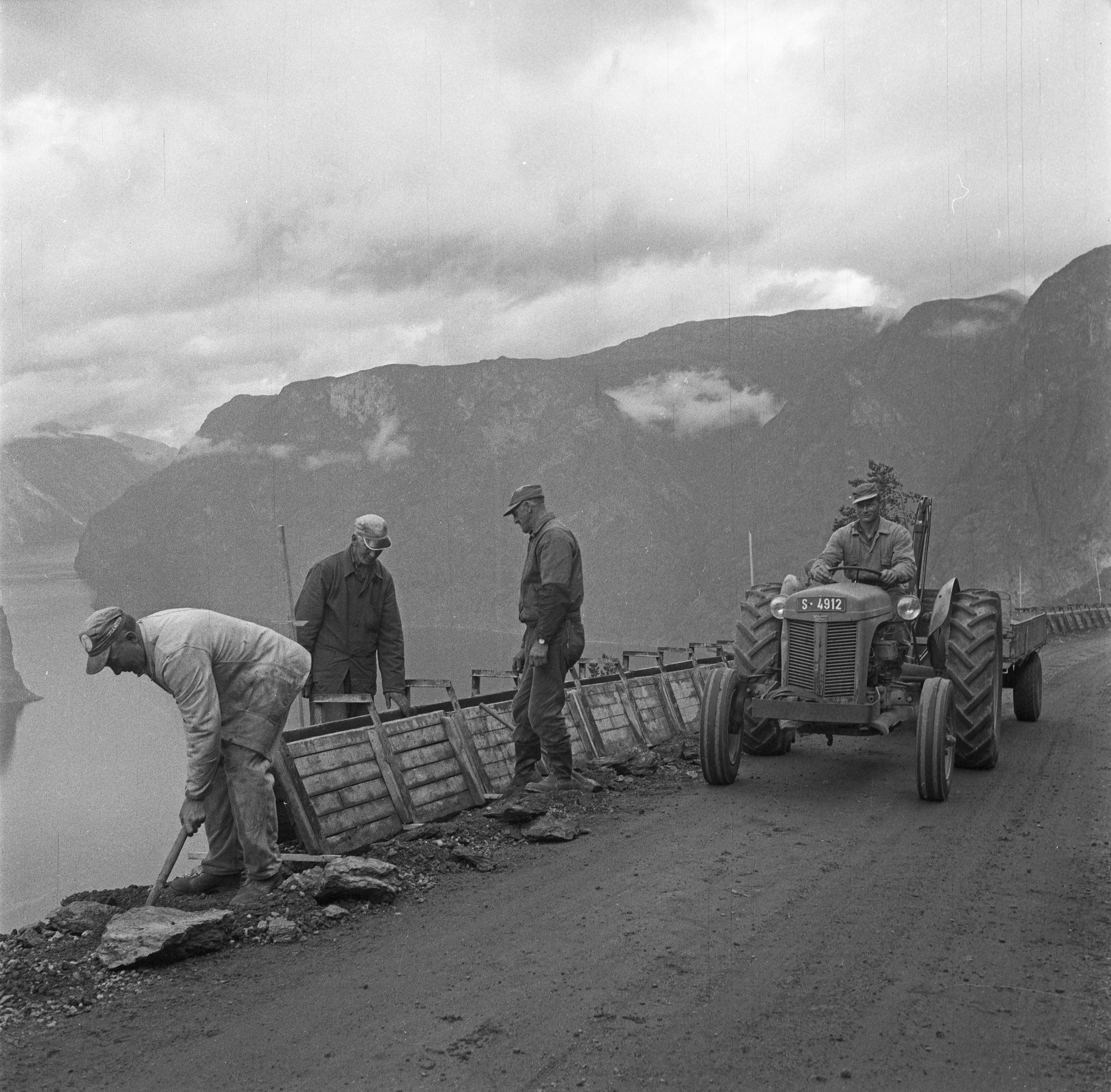 Format: 120 mm sort/hvitt negativ Dato / Date: 1966 Fotograf / Photographer: Eirik Sundvor (1902 - 1992) Sted / Place: Aurland, Sogn og Fjordane Wikipedia: Vei Eier / Owner Institution: Trondheim byarkiv, The Municipal Archives of Trondheim Arkivreferanse / Archive reference: Tor.H43.B78.F18204